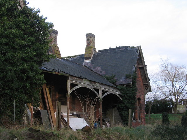 Barrow for Tarvin Station Derelict remains of Barrow for Tarvin Station on the Altrincham to Chester Railway.